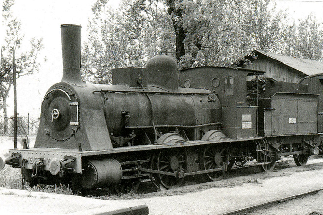 Locomotora 120-2131 "Oeste 77"